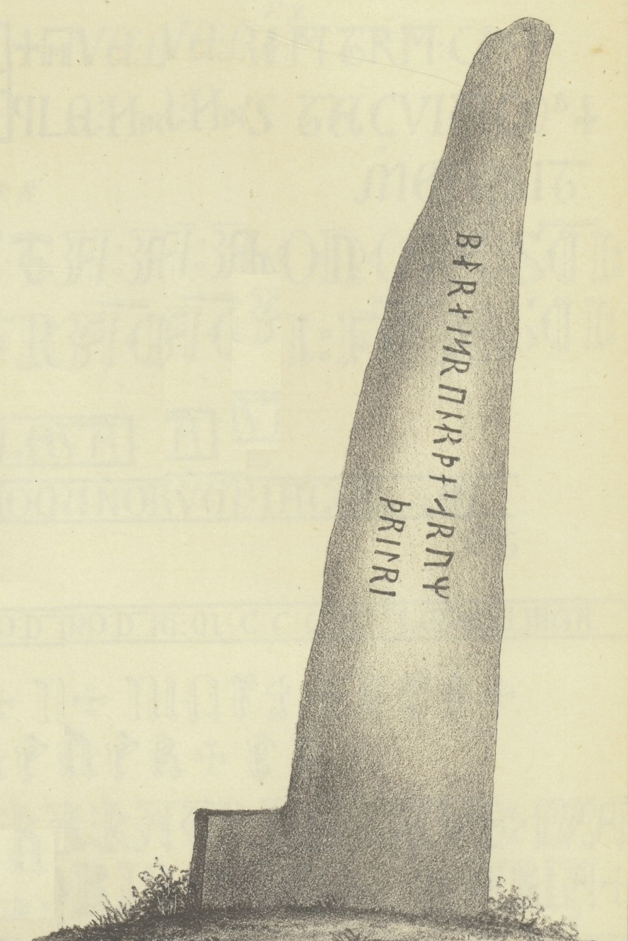 Drawing of stone with medieval Runic inscription from Morken, Radøy, Hordaland. The inscription is read as: "bal ræist runar þesar um þrilri/þrilrk"